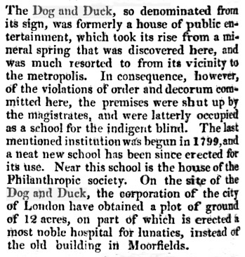 The Edinburgh Gazetteer or Geographical Dictionary, Volume 5 Description of the Dog and Duck tavern being closed for "violations of order and decorum" and its replacement firstly with "a school for the indigent blind" and later with "a most noble hospital for lunatics".